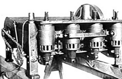 Wright Brothers First Aero Engine, 1903.